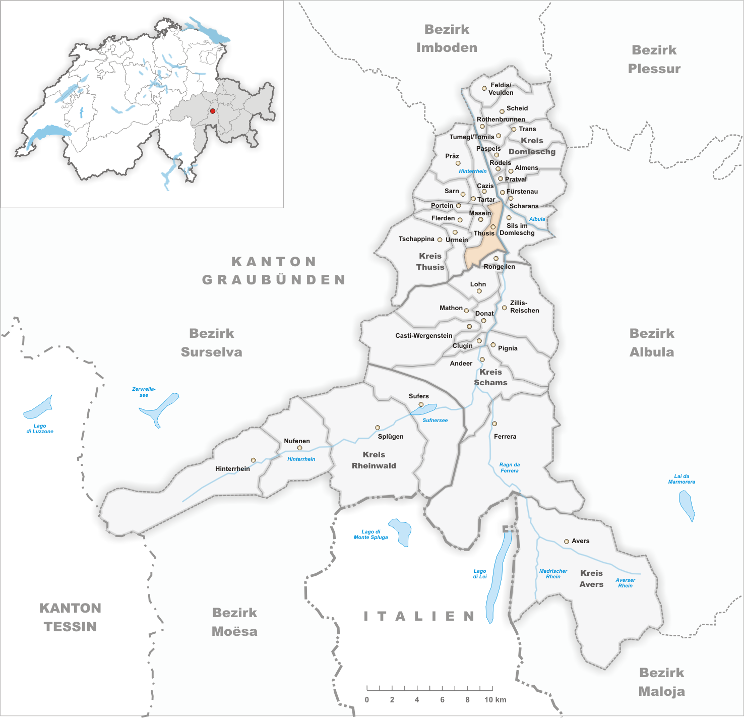 Municipality Thusis